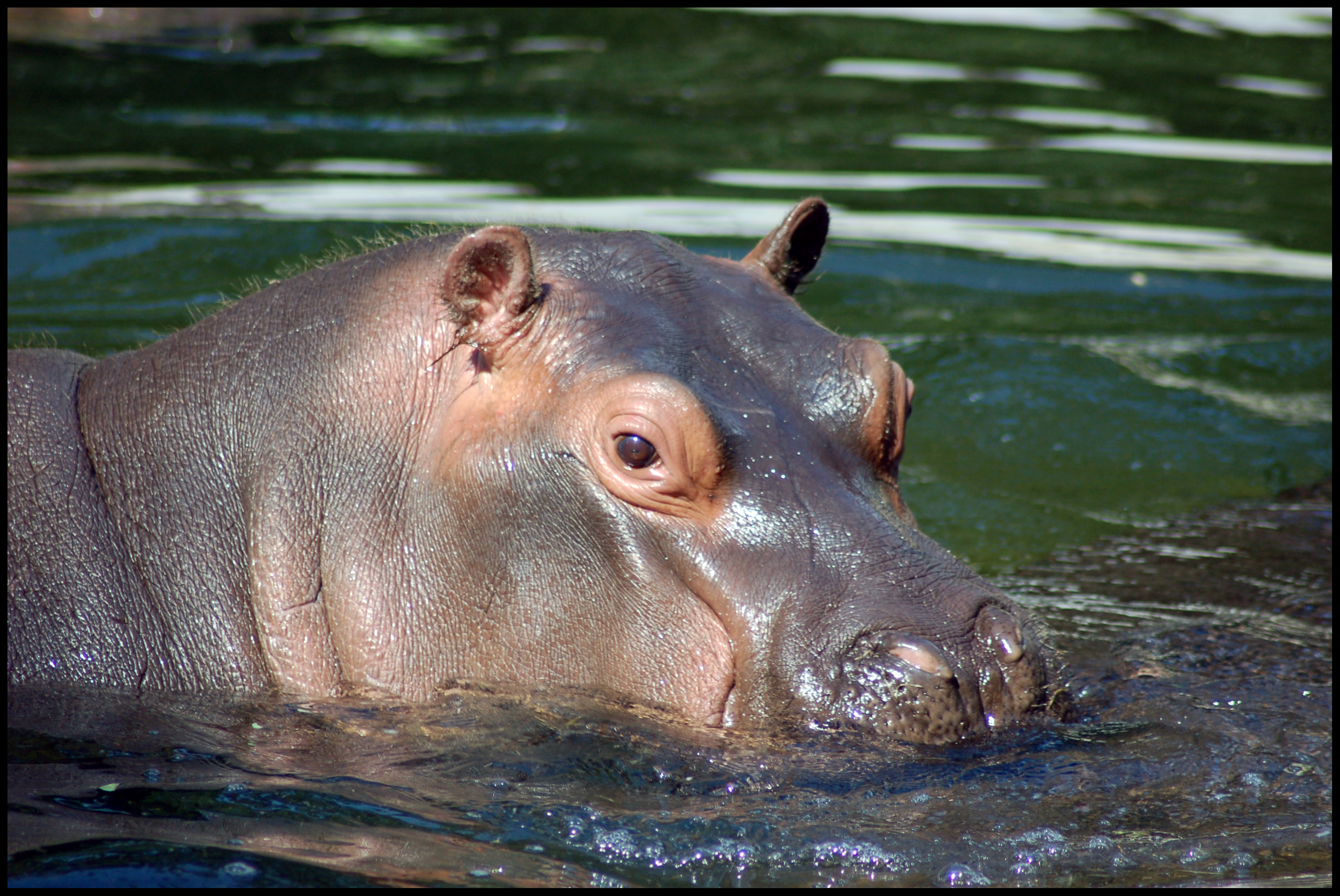 Hippo